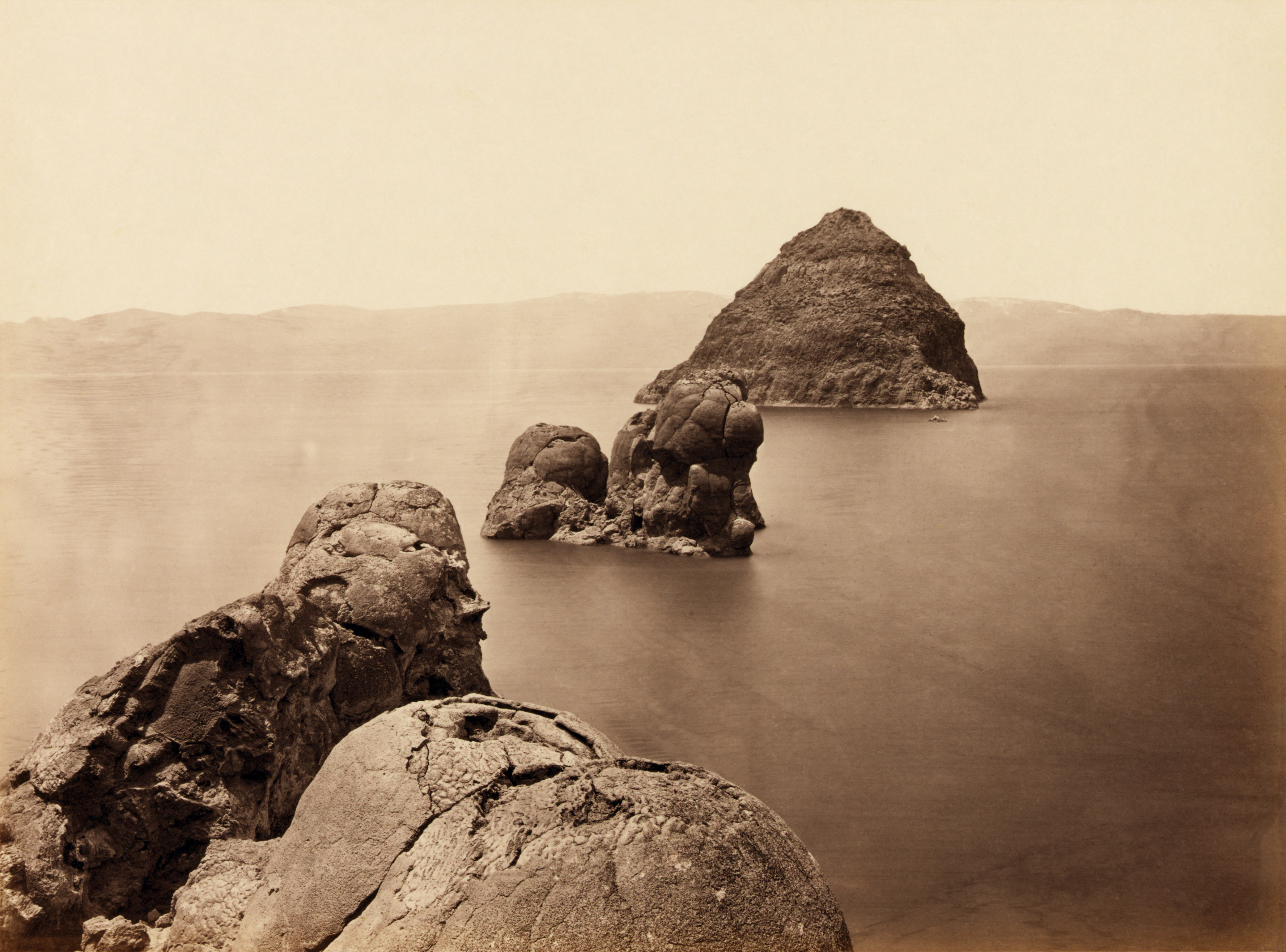 The Pyramid and Domes — in Pyramid Lake, western Nevada. A line of dome-shaped tufa rocks culminating in a large pyramid-shaped tufa rock in Pyramid Lake.